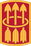 30ada-bde